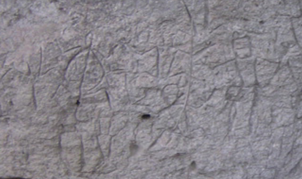 uploaded by Lloyd Intalan (User:LFIntalan). Info: * Rock carvings (petroglyphs) from the Philippines. Photo Lloyd Intalan 2005. The carvings pictured are located at Angono in Rizal, Philippines.